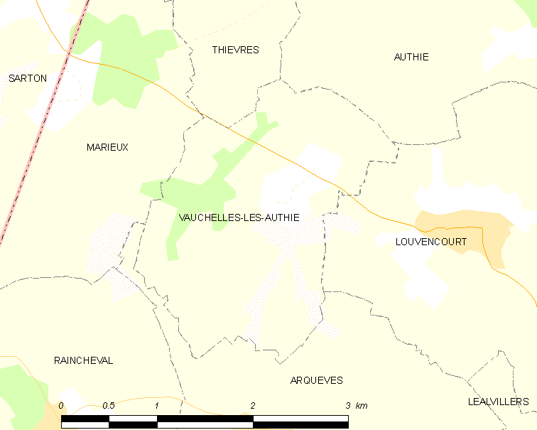 Map of French municipality Vauchelles-lès-Authie